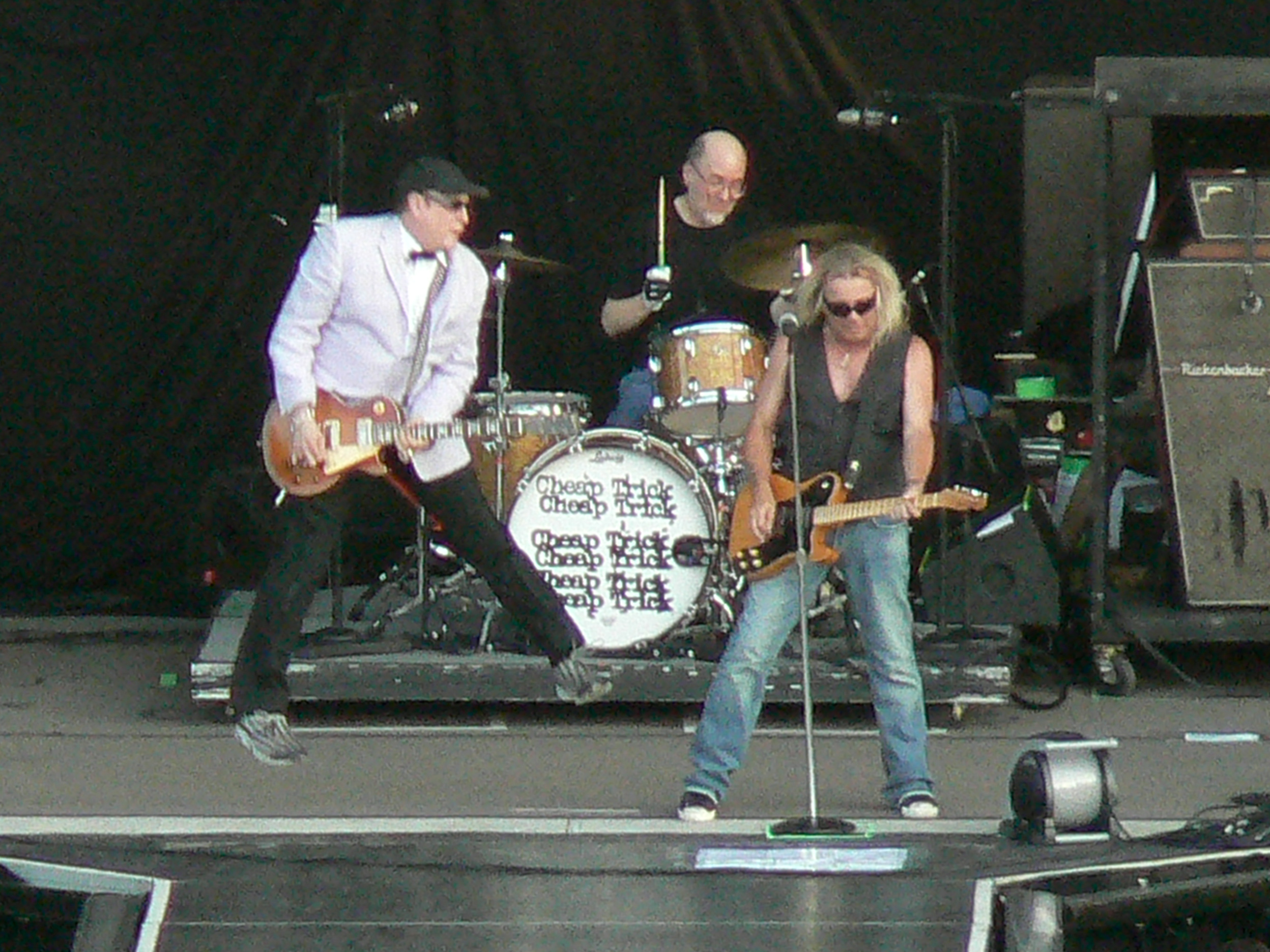 Nielsen, Carlos and Zander, of the band Cheap Trick, on tour with Def Leppard and Poison in 2009 at the Sleep Train Amphitheater in Marysville, CA